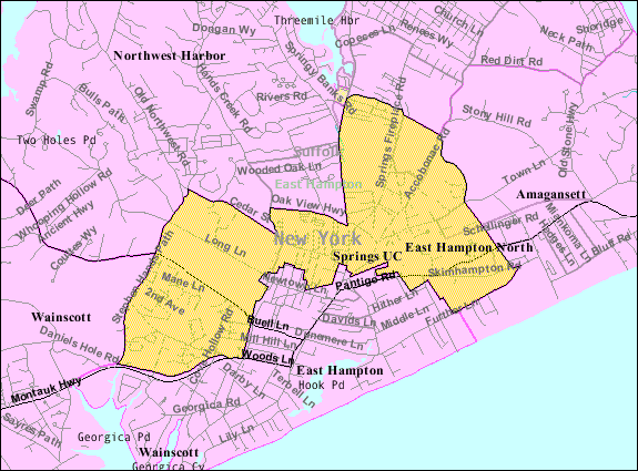 U.S. Census 2000 reference map for East Hampton North